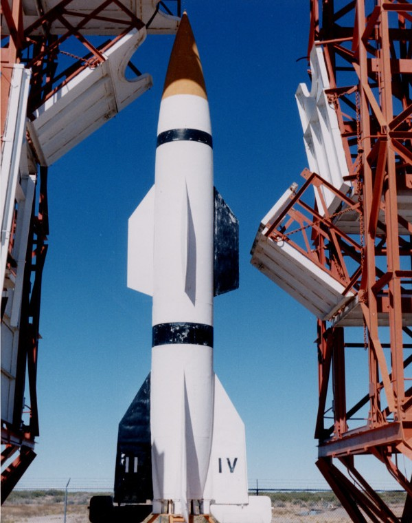 The Hermes A-1 missile was an American version of the German Wasserfall missile of World War II. The development of the Hermes A-1 by the General Electric Company was begun in 1946 and was part of the larger Hermes program that took advantage of German wartime technology.